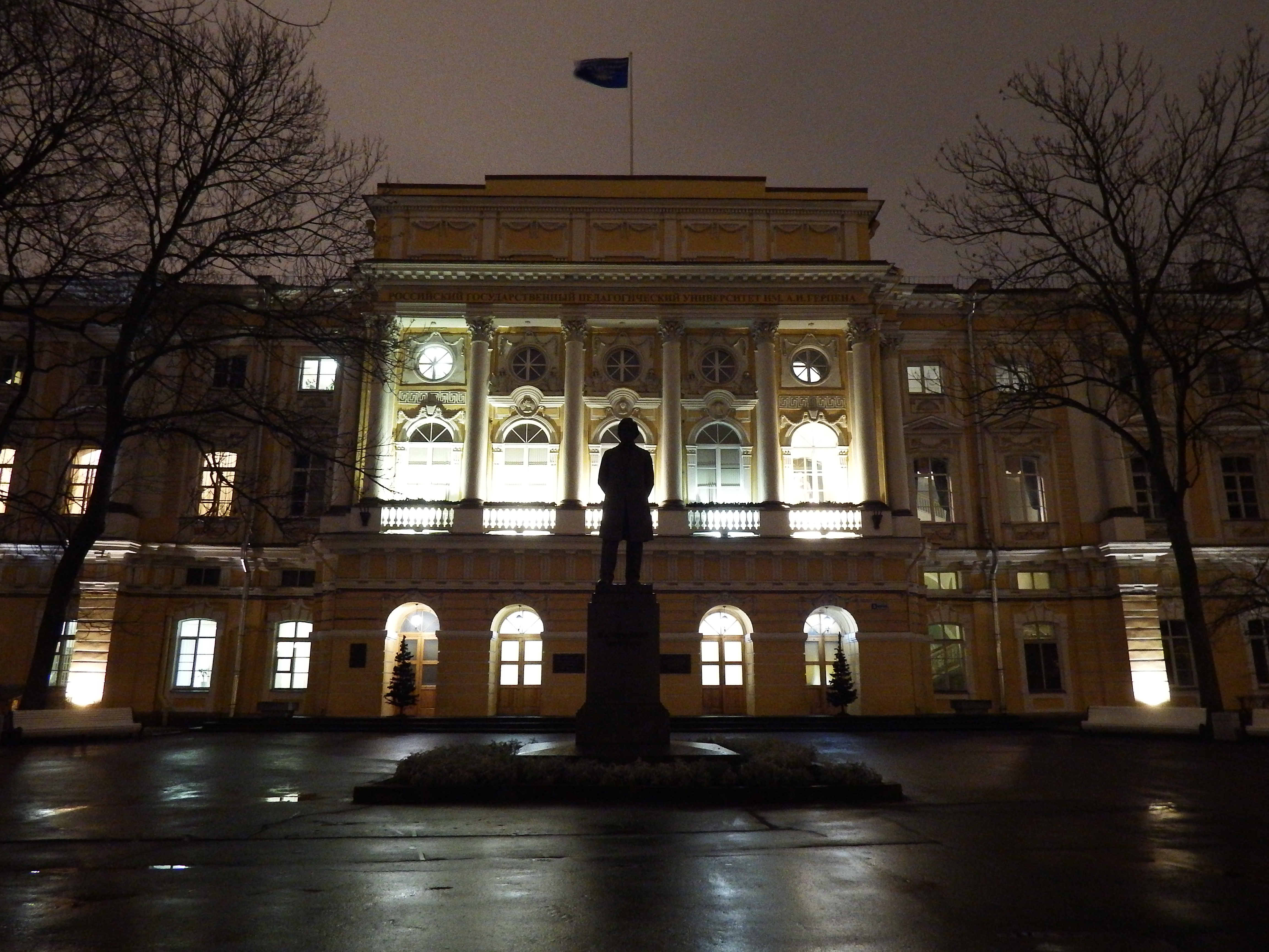 Herzen State Pedagogical University of Russia, main building at winter evening